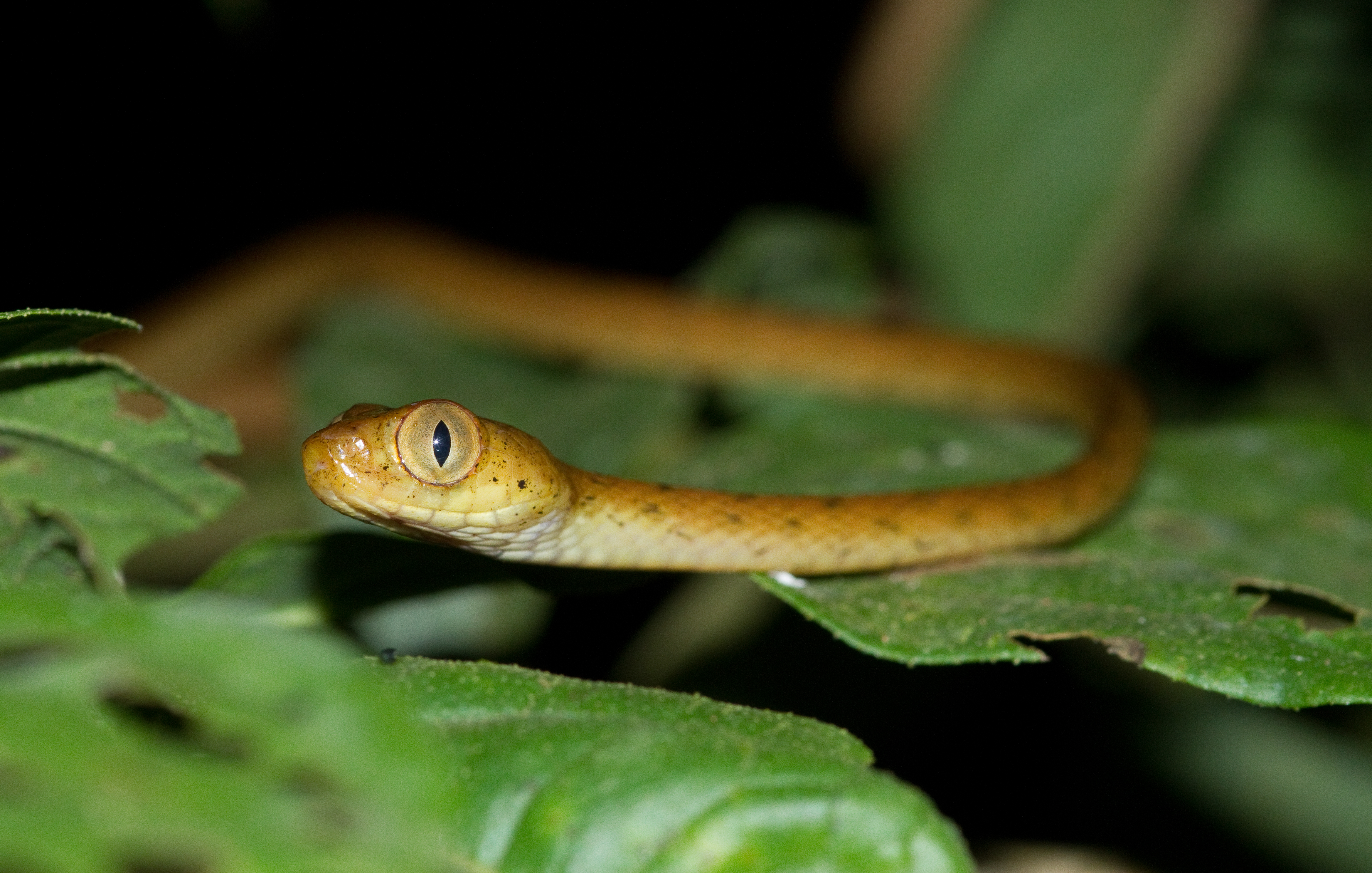 Leptodeira annulata, Panama